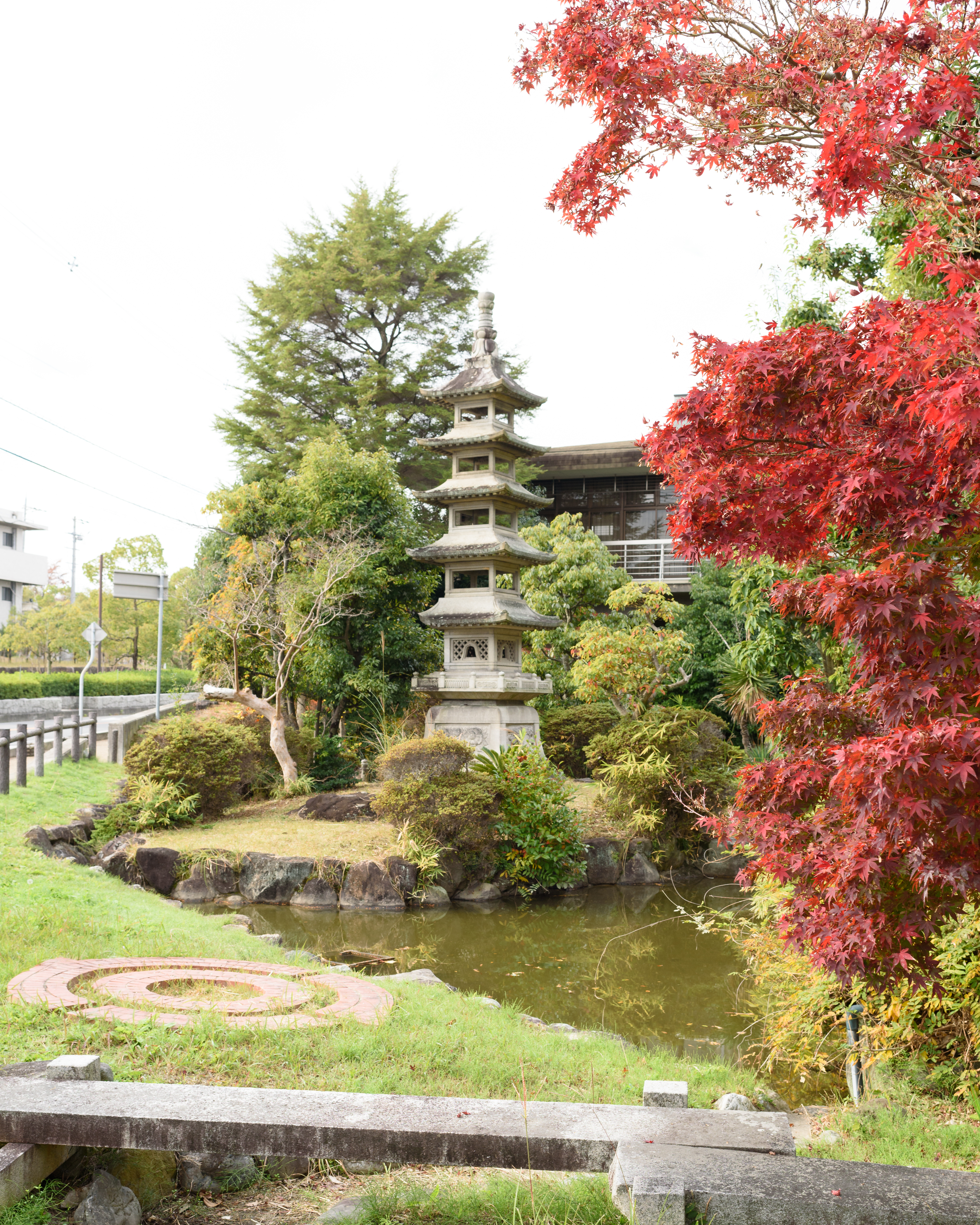 Kawai Town Office in Nara Prefecture, Japan